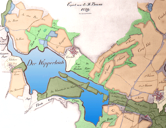 1829 sketch map of the Wipperteich pond between the villages of Velstove, Eischott and Brechdorf, Lower Saxony, Germany